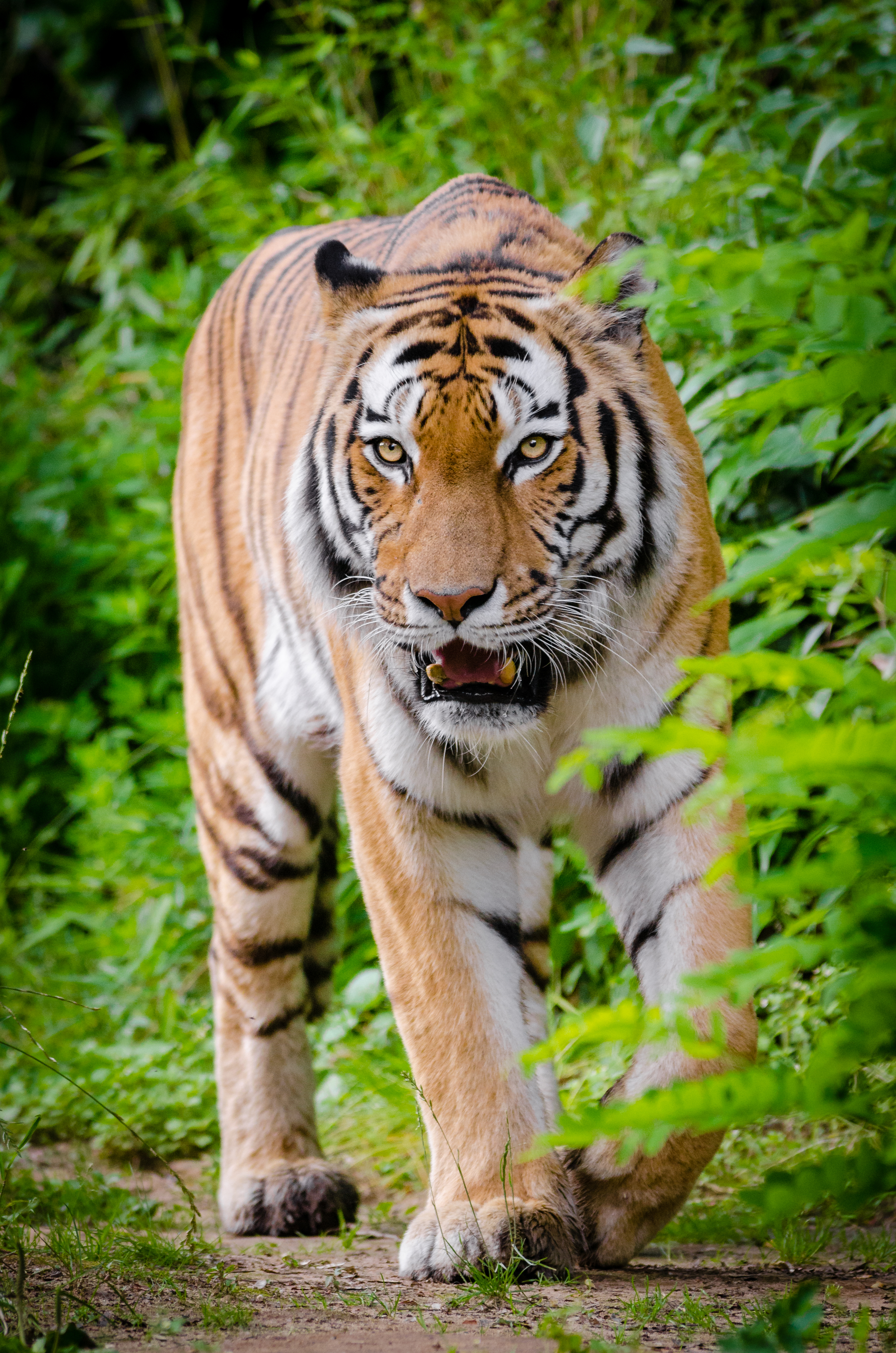 Siberian Tiger Elroy walking through his all new enclosure. He really seems to like it! Lots of water, a small stream, tree trunks to climb on or to use as strach posts and he got a new partner as well, tiger lady Dasha from Denmark. As far as zoo animals go he has it pretty good, his enclosure is probably the biggest and nicest one I have ever seen. And it makes for some very natural looking shots, too!